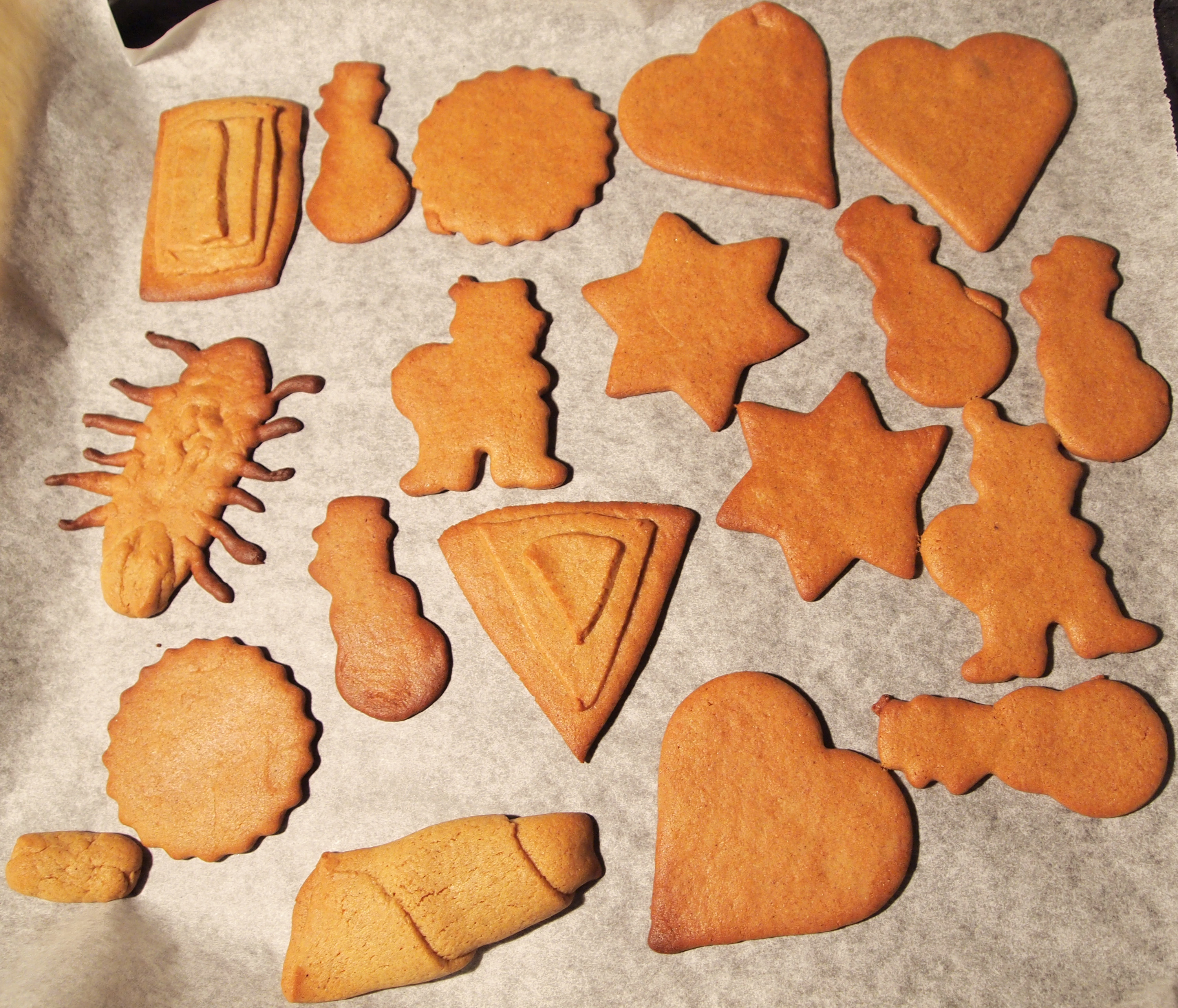 Different shaped gingerbreads on the baking paper.